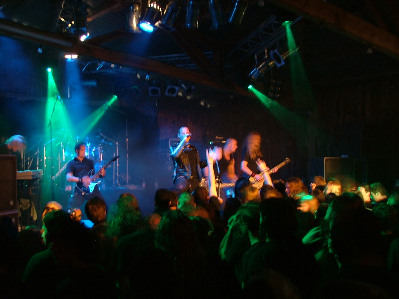 Danish melodic death metal band Mercenary